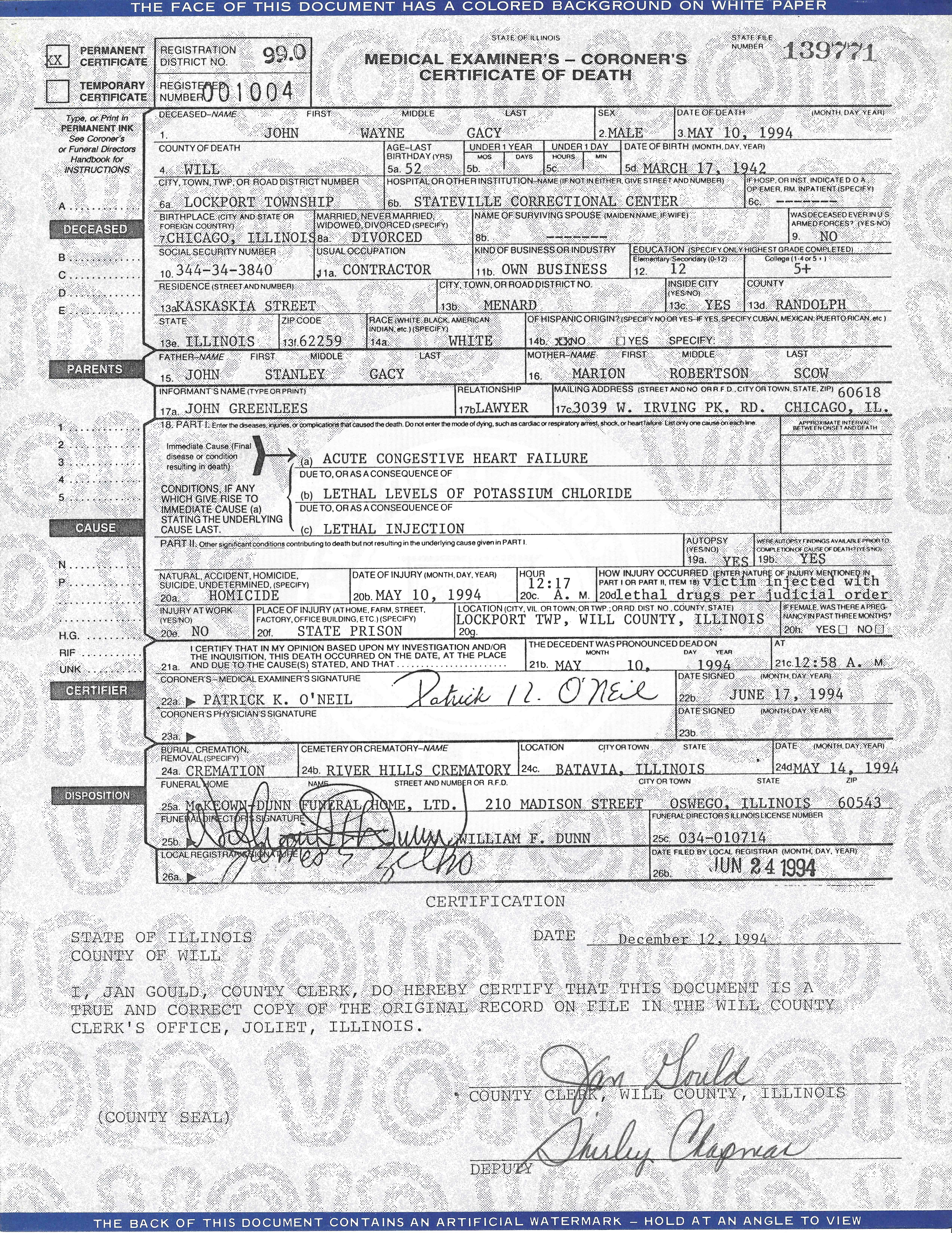 Scan of original John Wayne Gacy certificate of death. The manner of death is stated to be [state-sanctioned] homicide.